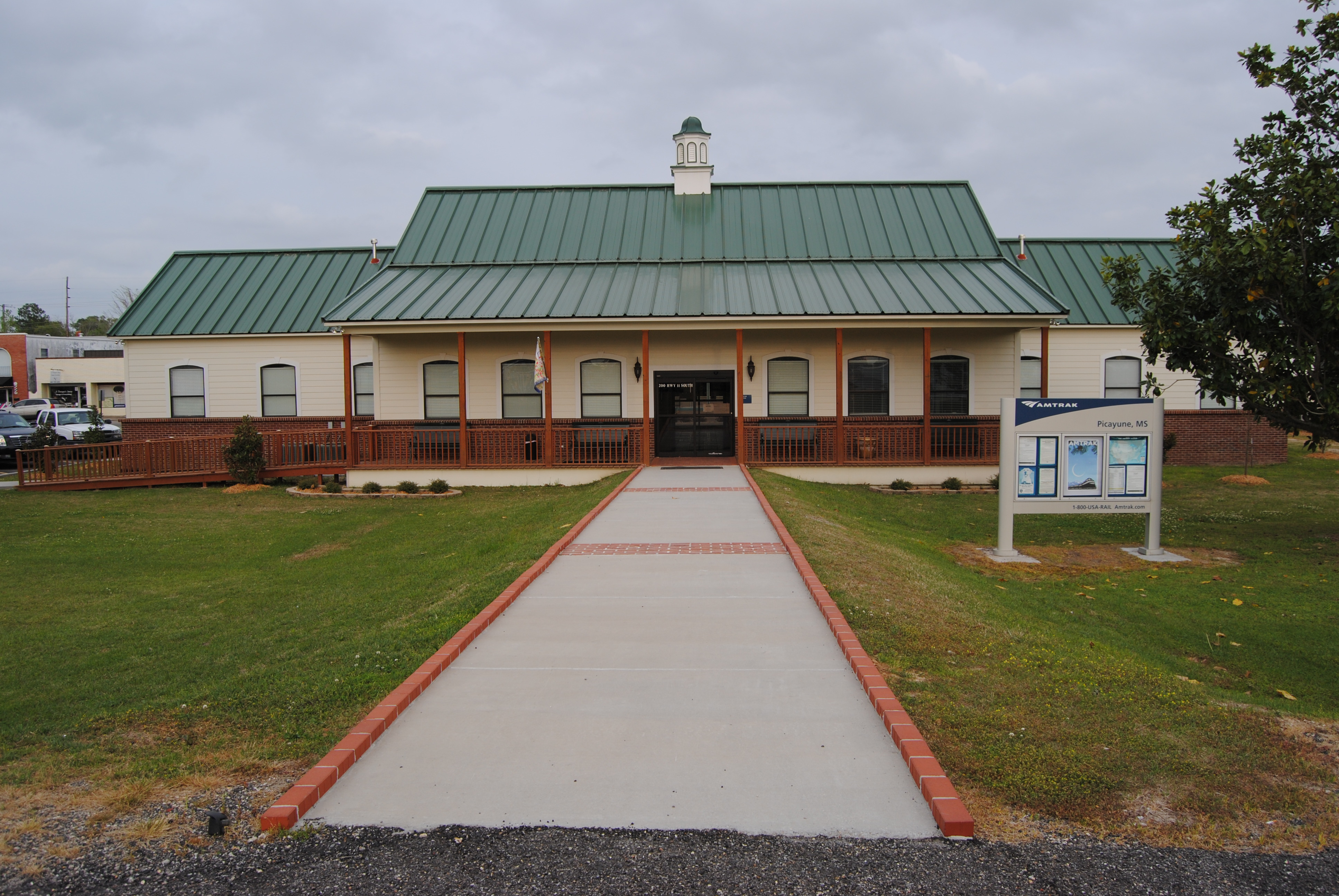 Picayune Amtrak Station Mississippi.. Serving the Crescent between New Orleans and New York via Washington DC.